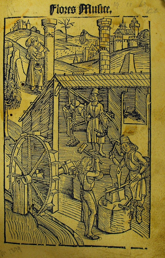 Spechtshart, Hugo, Reutlingensis: Flores musicae. [Strassburg: Johann Prüss, ca. 1492.].Title-page (A1r) with woodcut illustration showing the musical notes produced by different physical/mechanical operations.